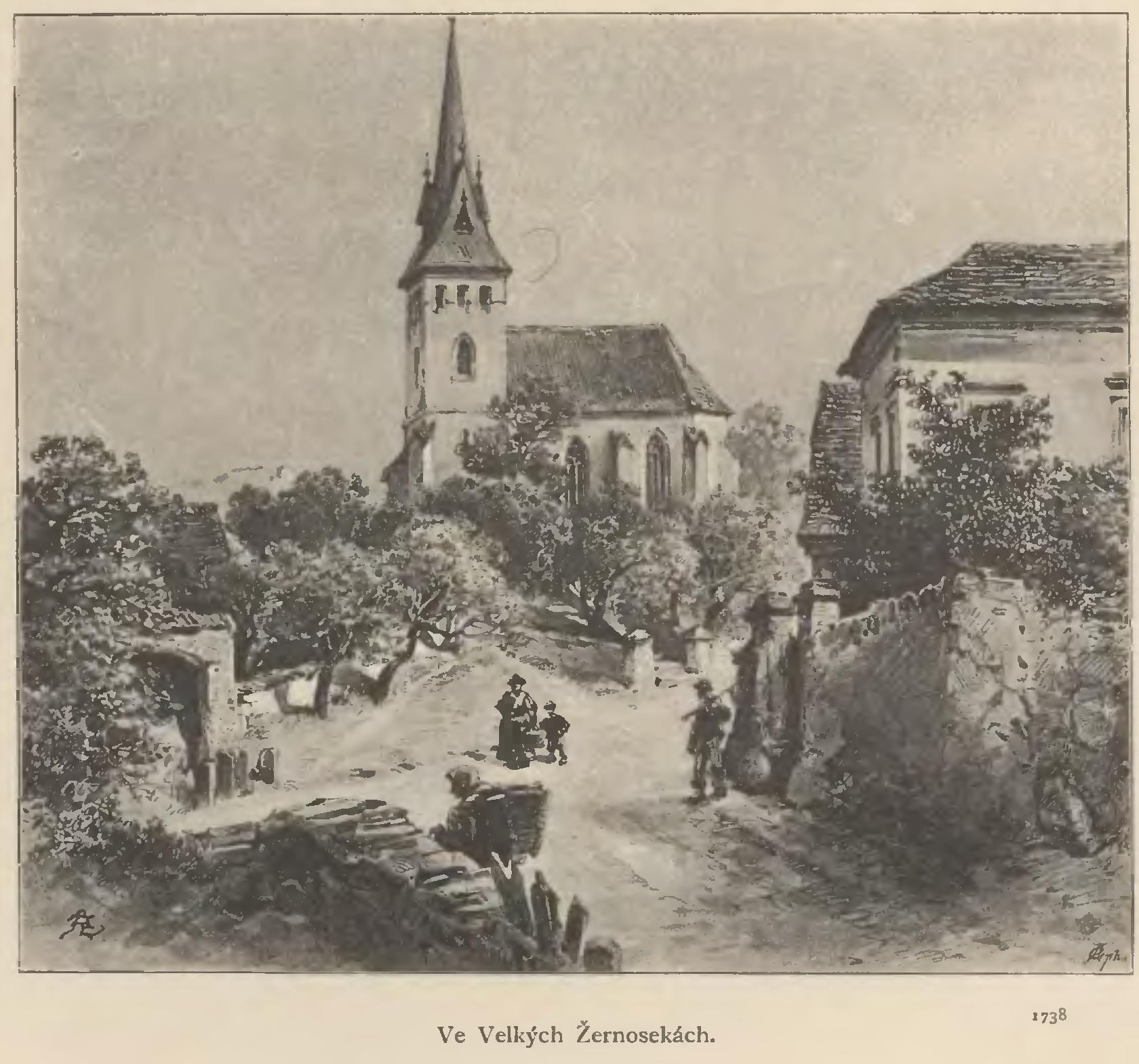 Village Velké Žernoseky in present-day Czech Republic, around 1892.